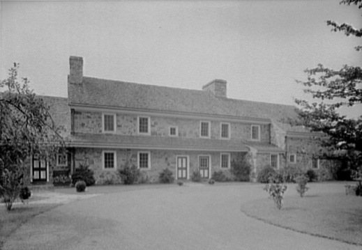 Entrance facade of "Ker-Feal — the Albert C. Barnes' residence in Chester Springs, Pennsylvania.